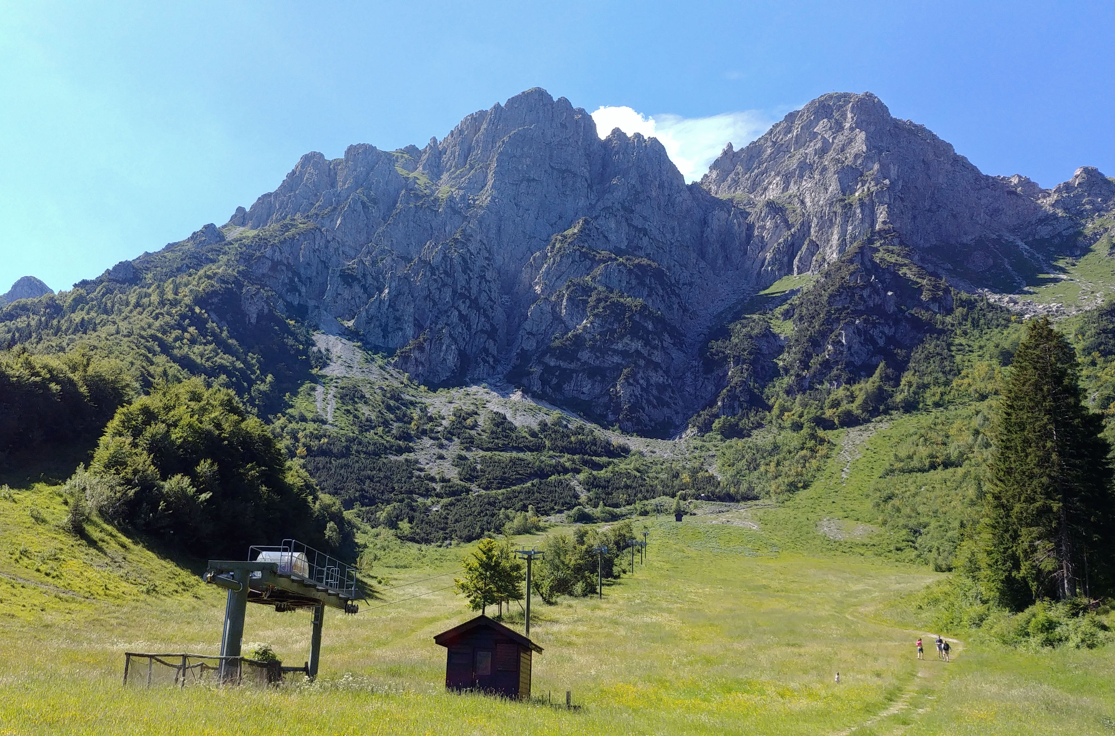 Cima la Croce (part of mount Alben) seen from Conca dell'Alben